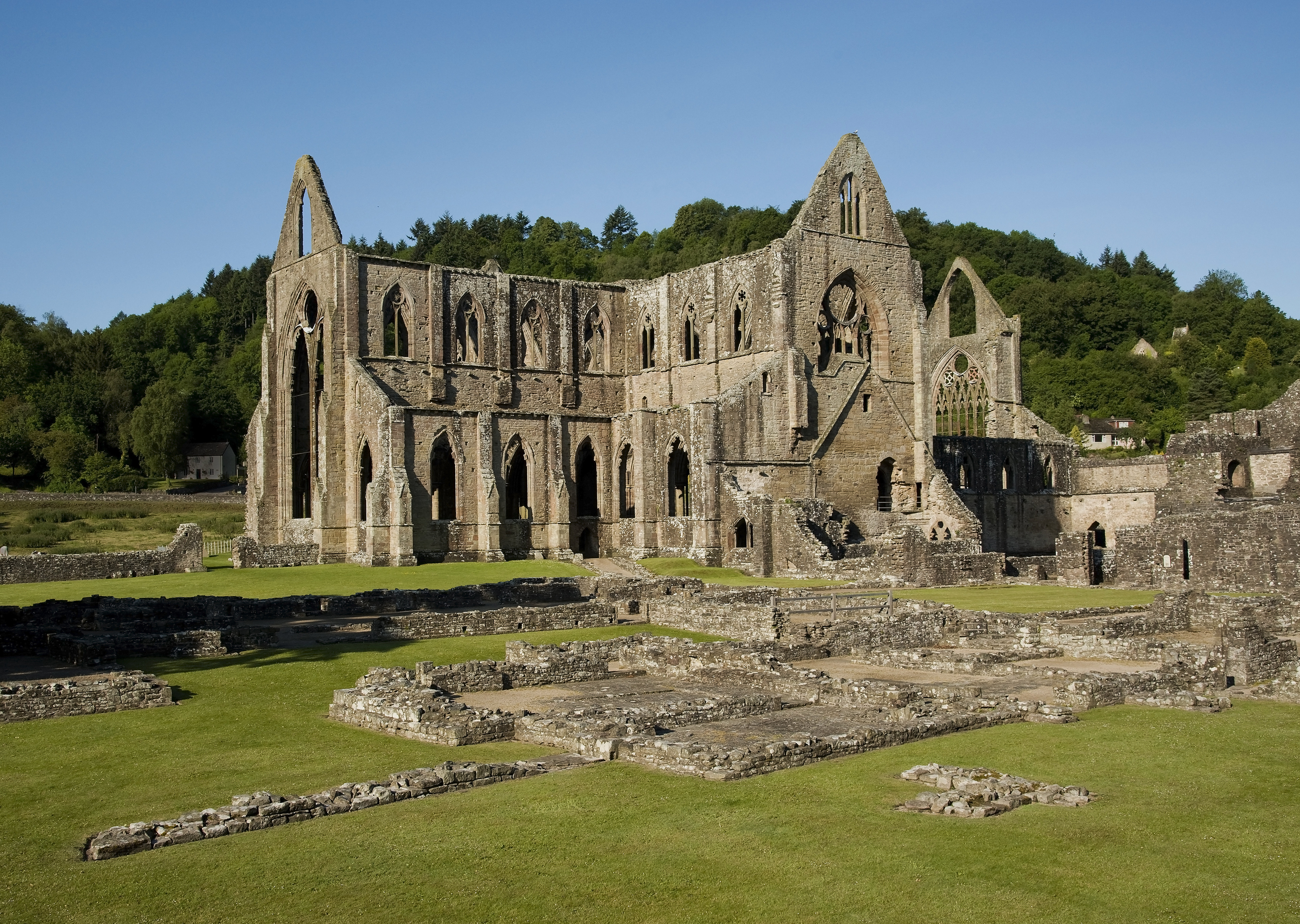 Tintern Abbey (Welsh: Abaty Tyndyrn) was founded on May 9, 1131. This is a view of the ruins from the East just as the sun rises over the hills. The inner courtyard is in view.